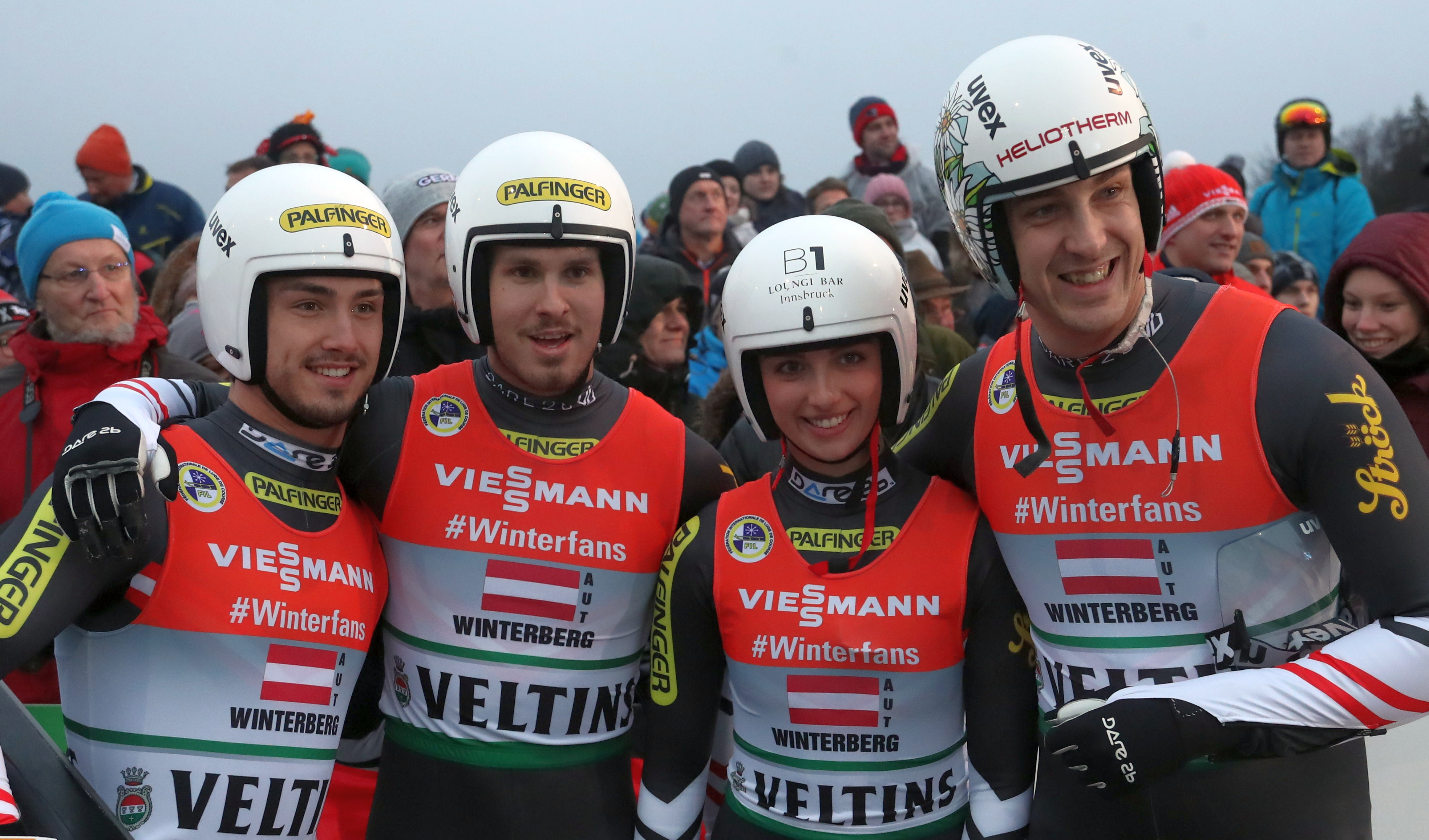 Team Relay at the FIL World Luge Championships 2019 in Winterberg